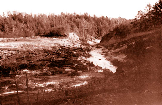 View of Kelly Barnes Dam breach